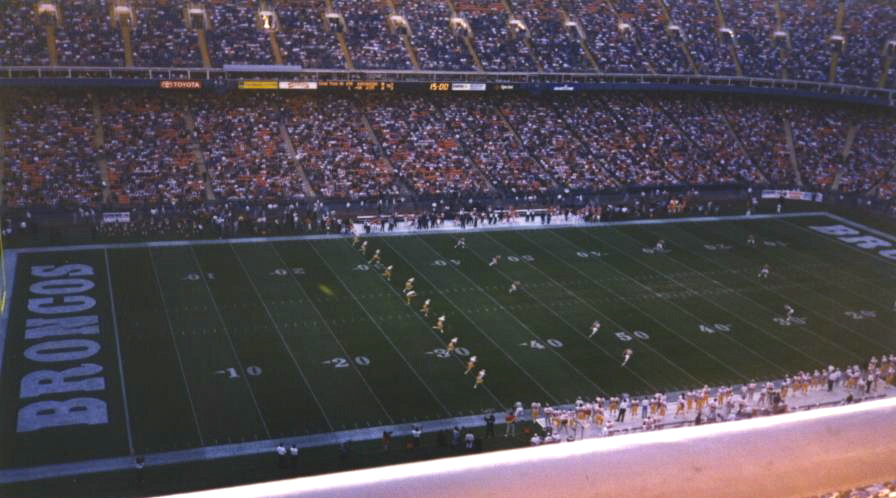 Action on the field. I was in the area on business and decided to take in a Broncos / Buccaneers game on a Sunday night in 1996.